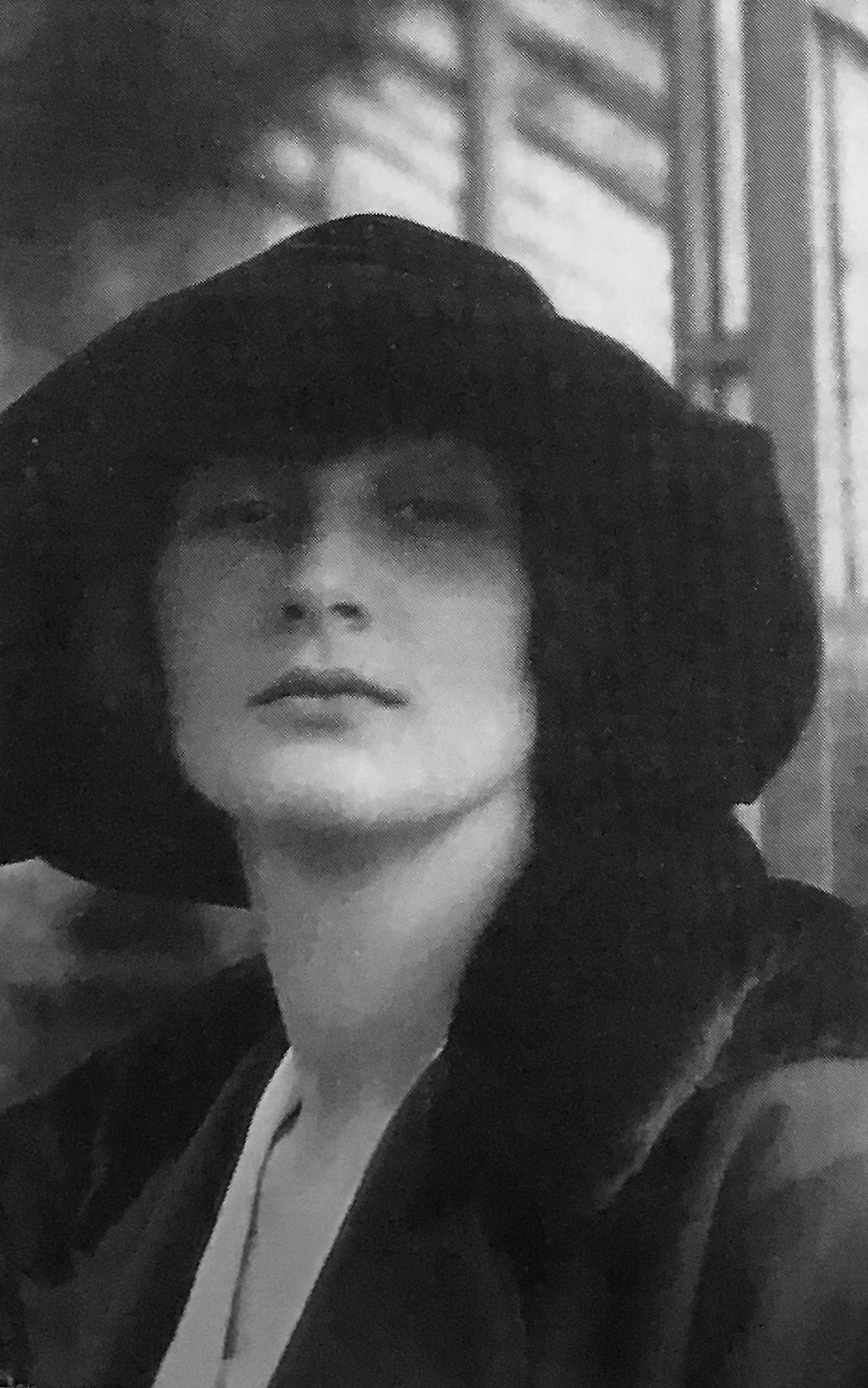 Elisabeth Krippel